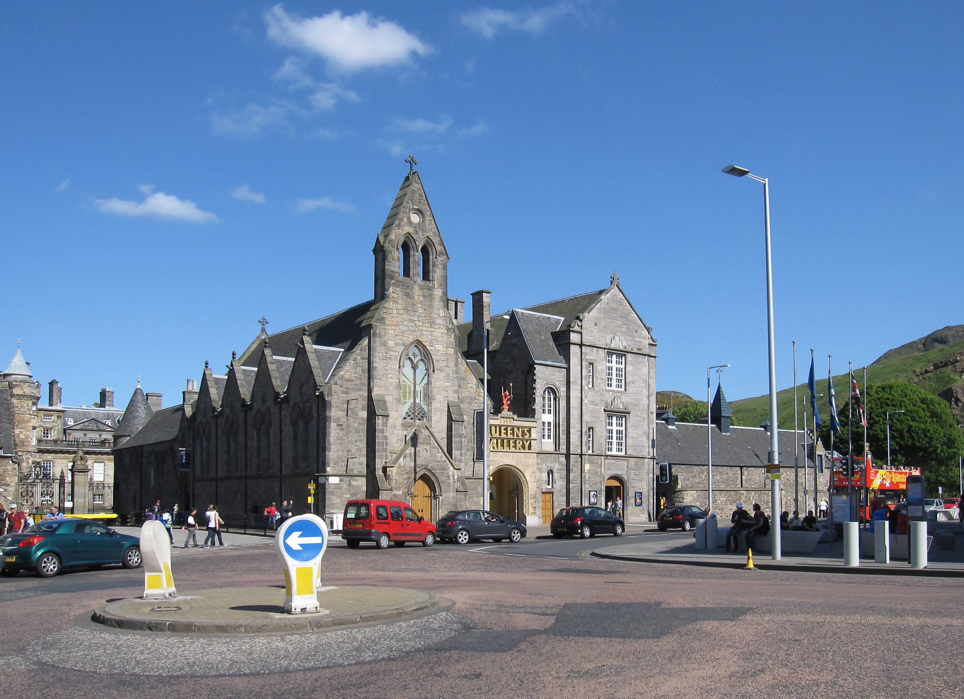 The Queen's Gallery in Edinburgh, Scotland, UK. The Queen's Gallery was built in the shell of the former Holyrood Free Church and Duchess of Gordon’s School at the entrance to the Palace of Holyroodhouse. The buildings were constructed in the 1840s with funds from the Duchess of Gordon.